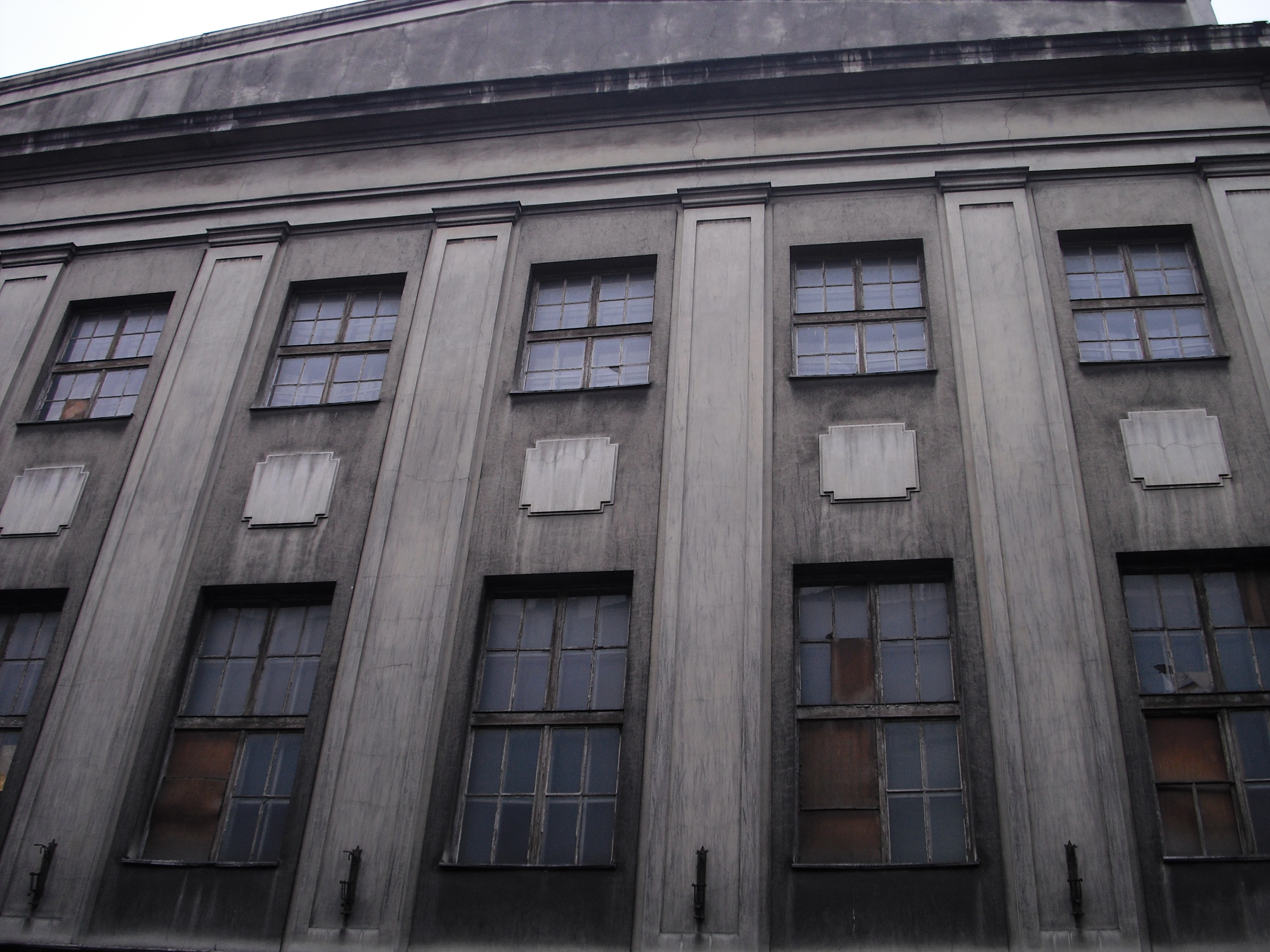 Building of former "Capitol" cinema in Katowice, Plebiscytowa 3, as of 24th September 2009